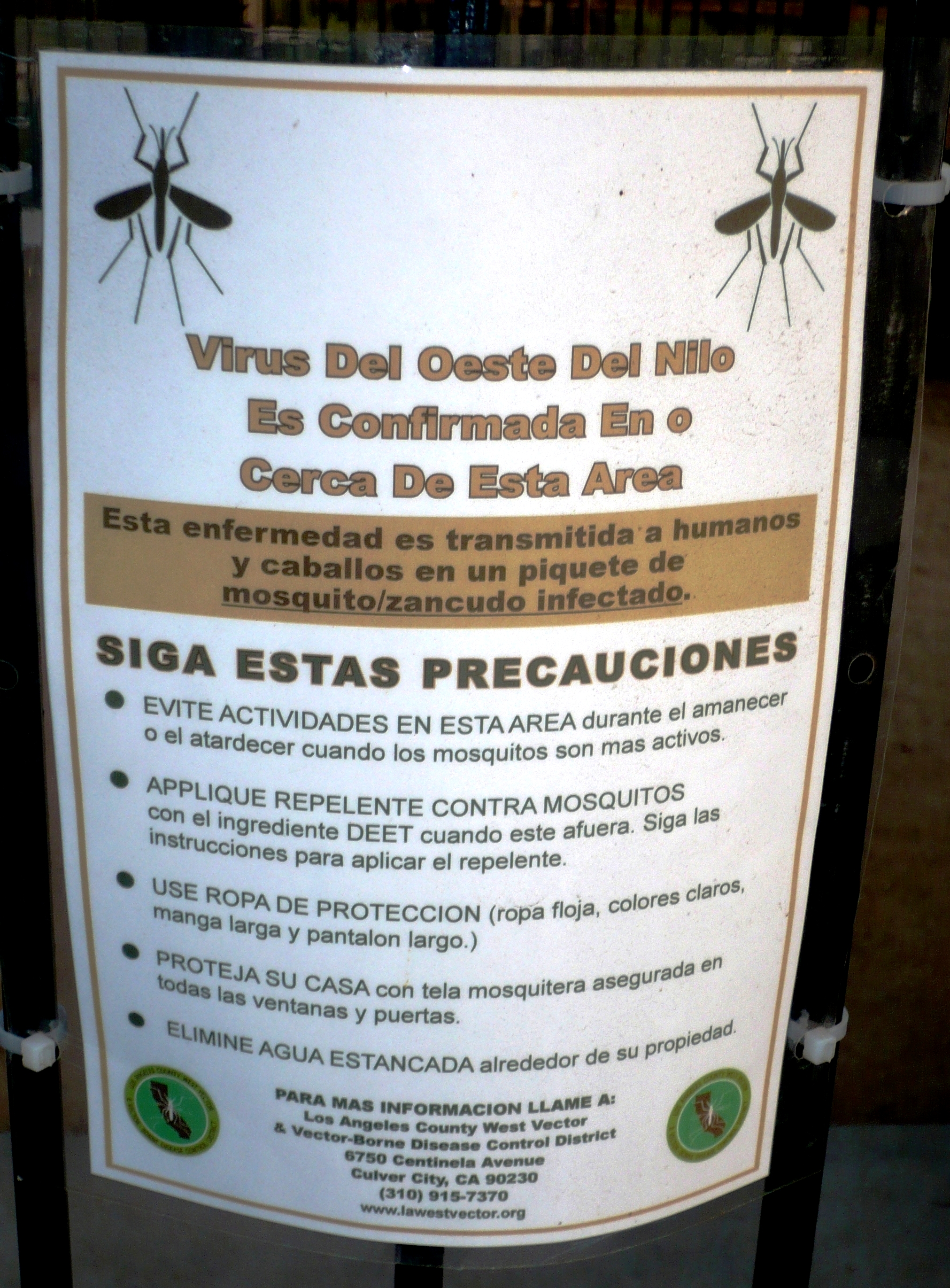 West Nile Virus Confirmed In or Near This Area. This disease is transmitted to humans and horses from bites by infected mosquitoes. Follow These Precautions: - Avoid activities in this area during dawn or dusk, when mosquitoes are most active. - Apply mosquito repellent containing DEET when outdoors. Follow the instructions to apply repellent. - Wear protective clothing (loose clothing, light colors, long sleeves, and long pants.) - Protect your home with mosquito net fabric around all windows and doors. - Eliminate stagnant water around your property.